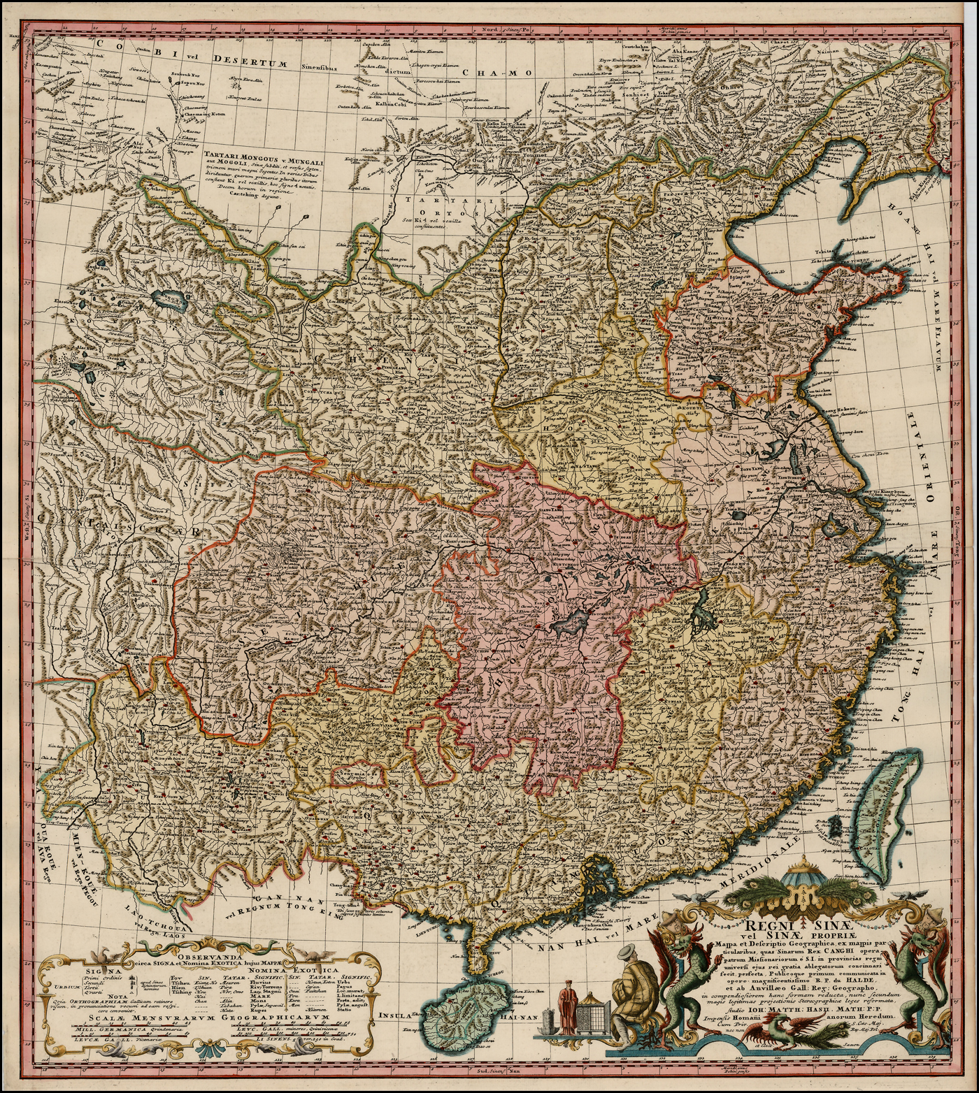 A map of the "Kingdom of China or China Proper"